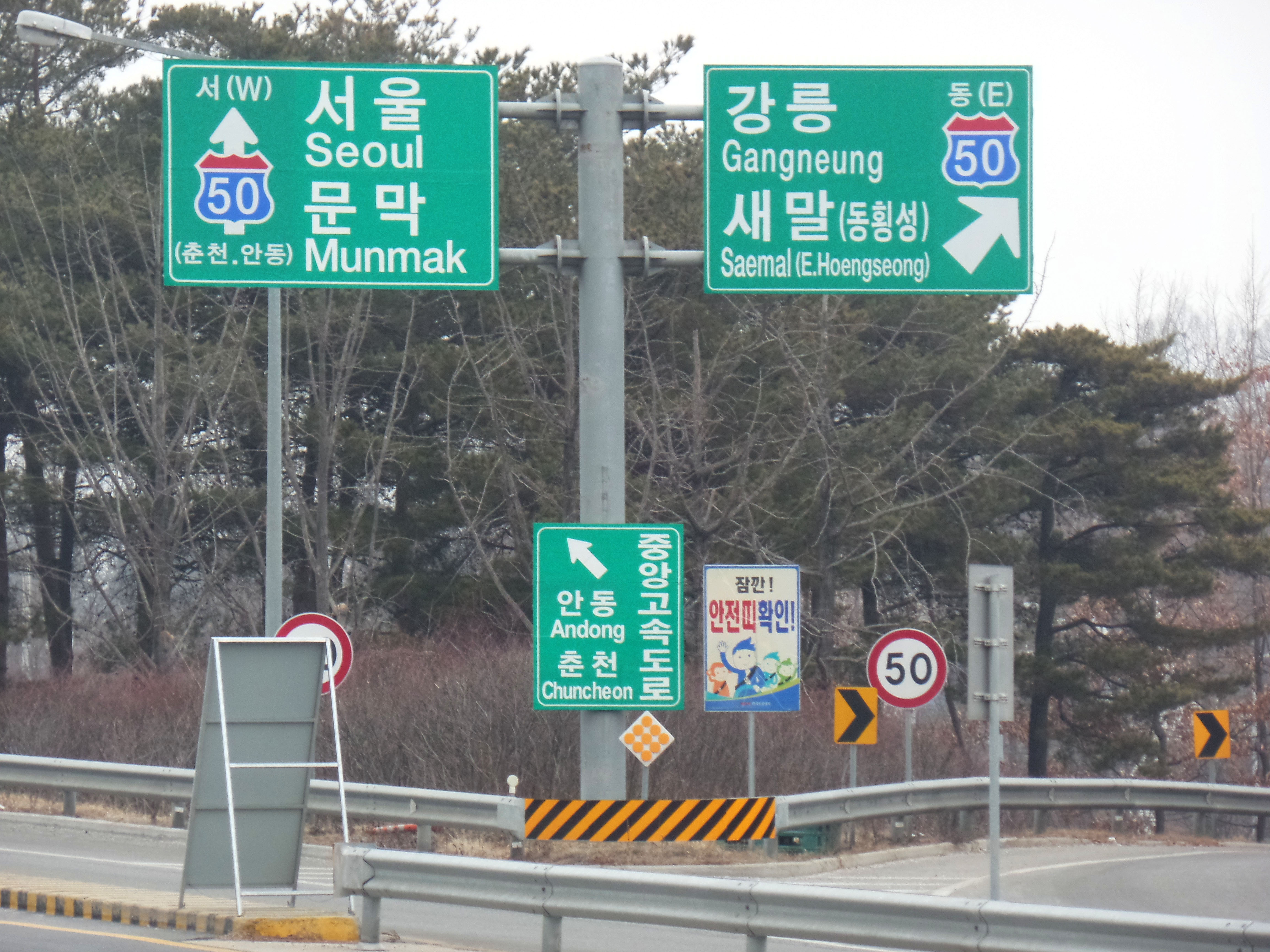 Yeongdong Expressway Entrance Sign in Wonju Interchange